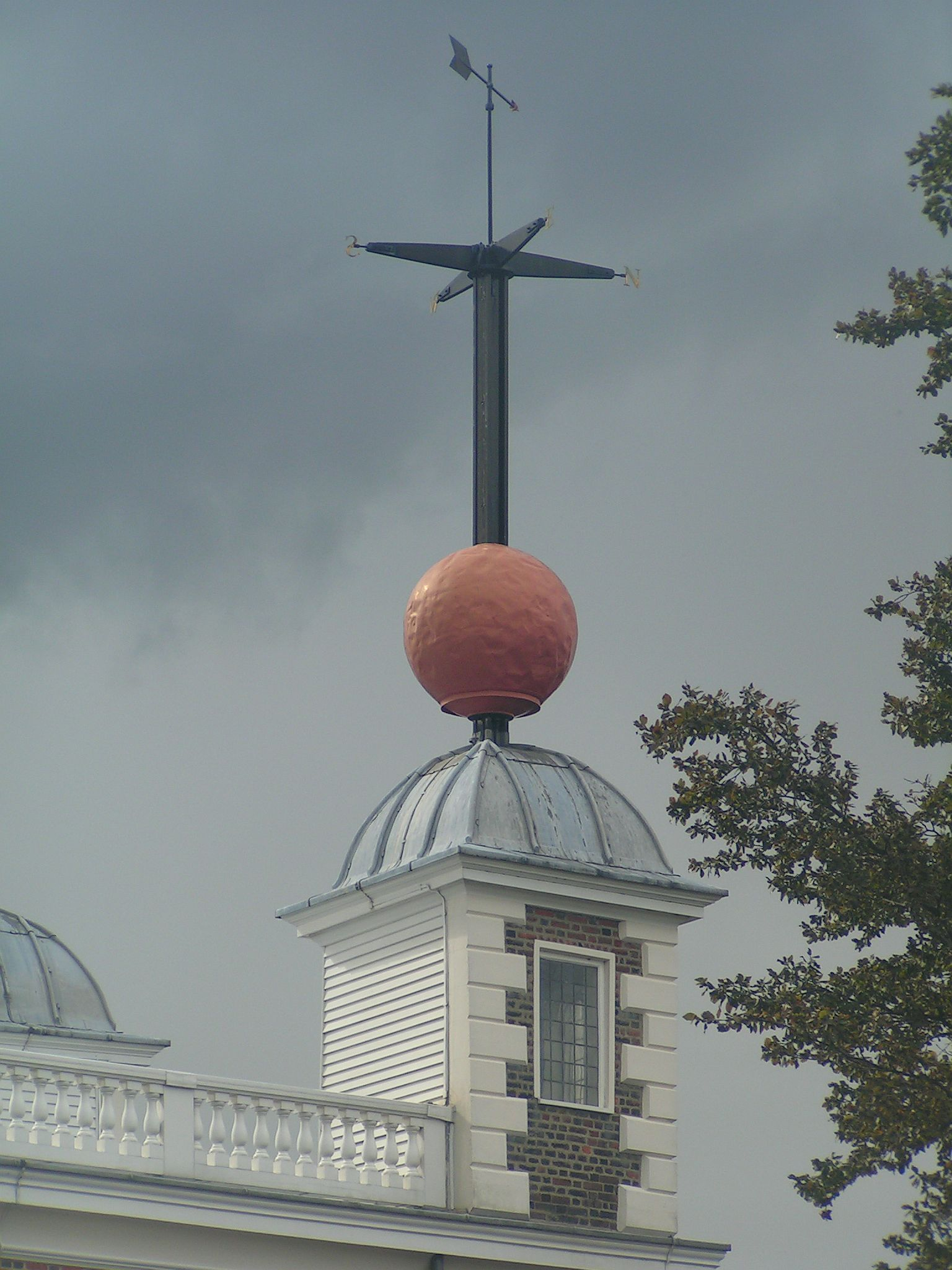 Royal Observatory, Greenwich time ball